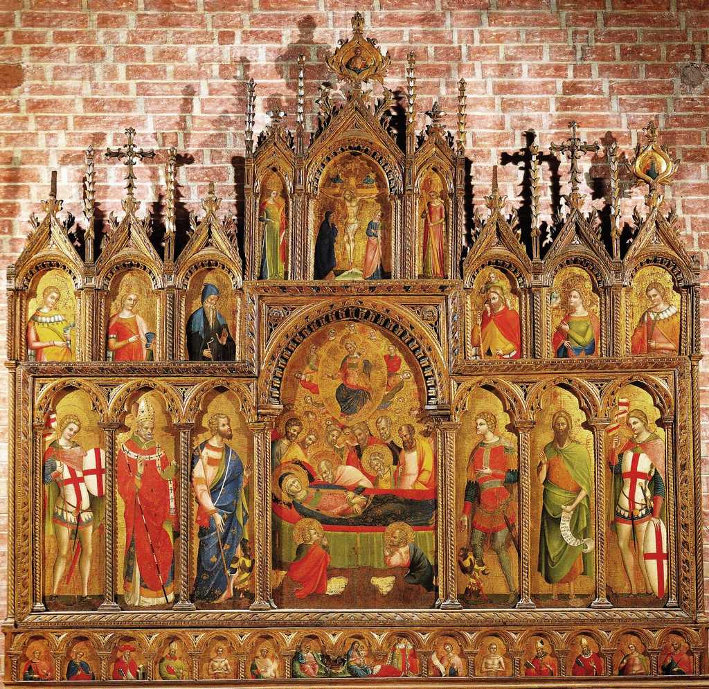 Lorenzo_Veneziano_Polittico_Proti_detail._1366._Vicenza_Cathedral